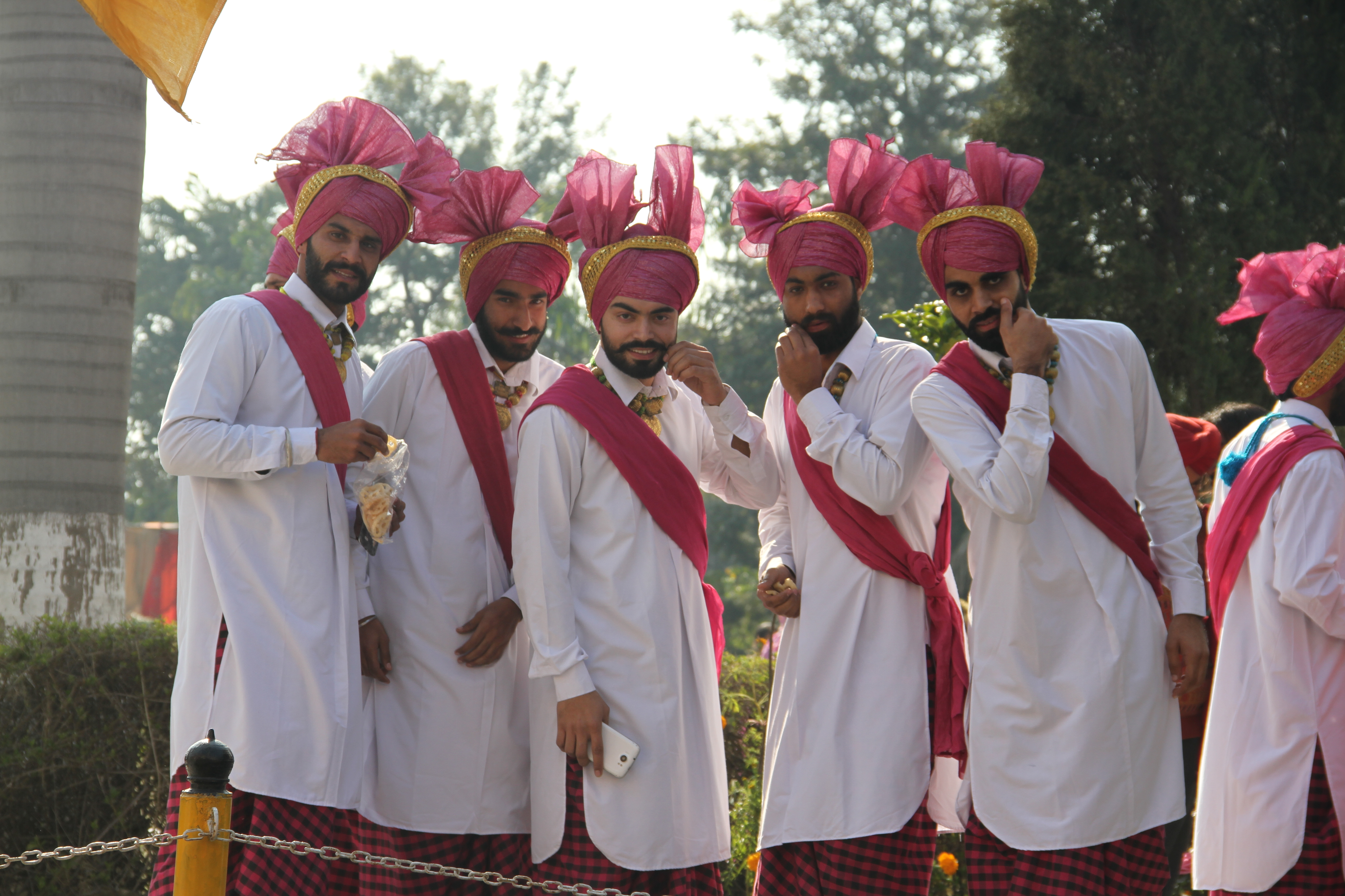 Bhangra boys /ਭੰਗੜੇ ਵਾਲੇ ਗੱਭਰੂ